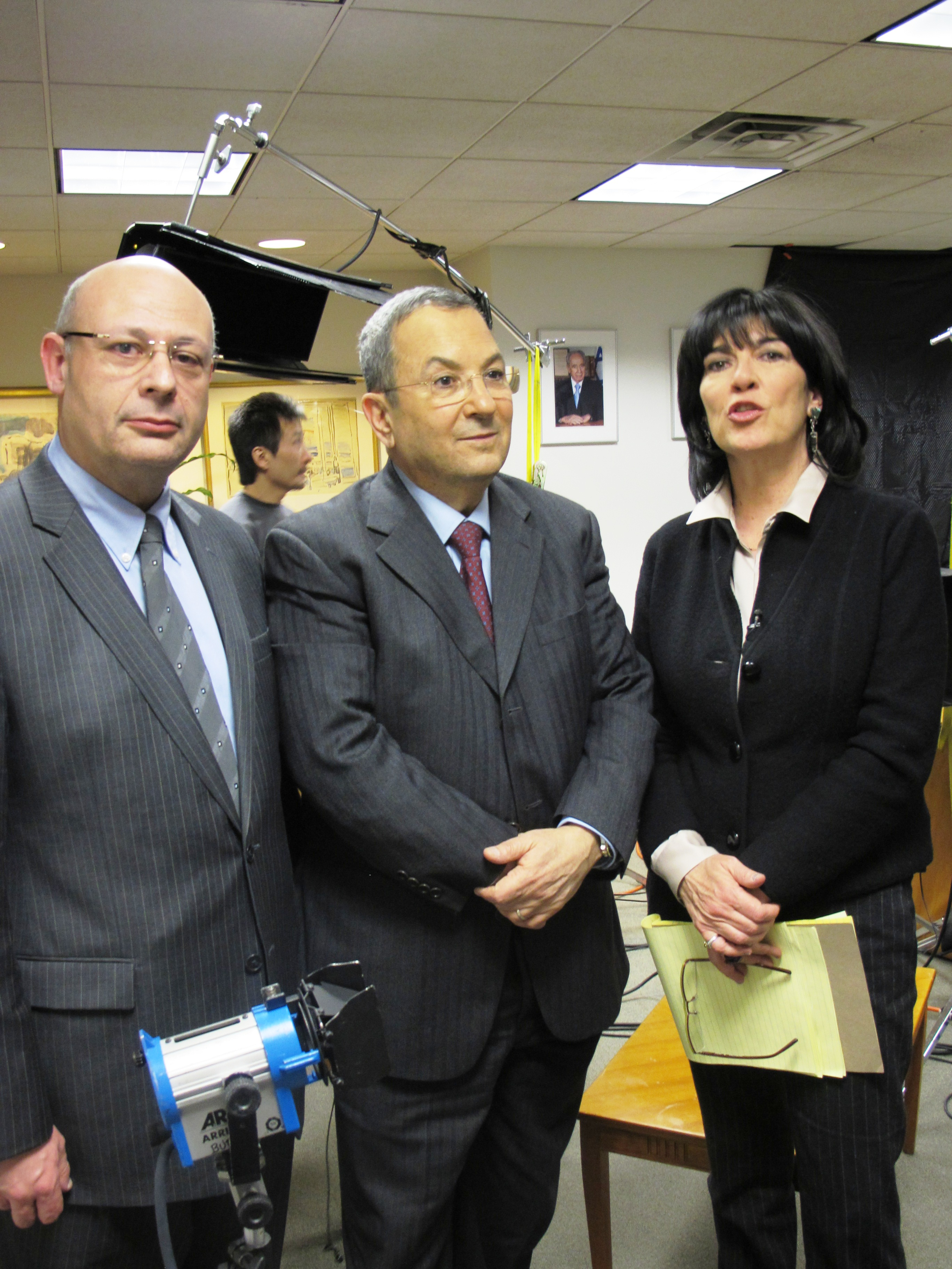 Joel Lion with Minister Ehud Barak and TV Personality Christiane Amanpour